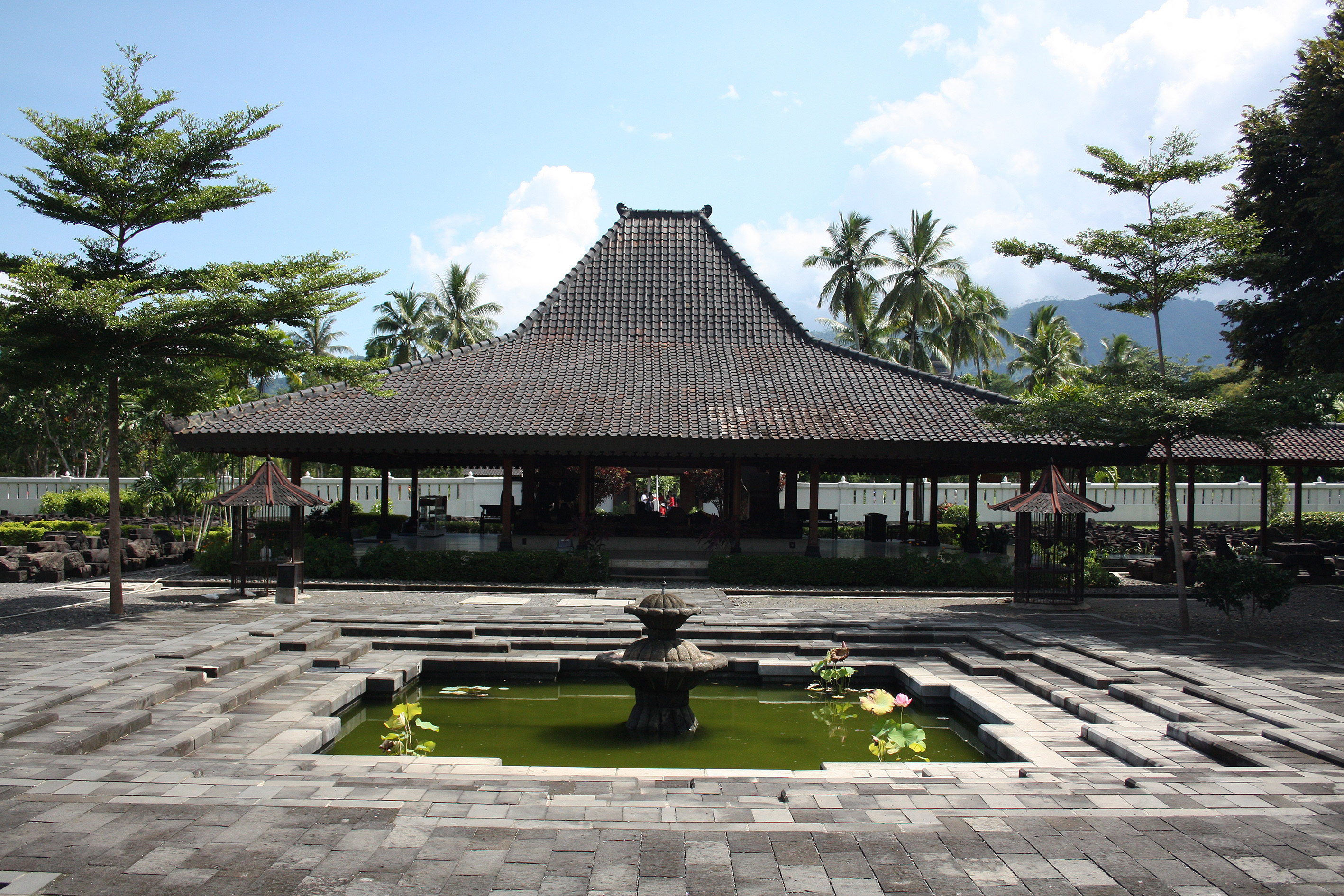 The Pendopo and pool of Karmawibhangga Museum near Borobudur. Pendopo is a Javanese style open pavilion with joglo roof.